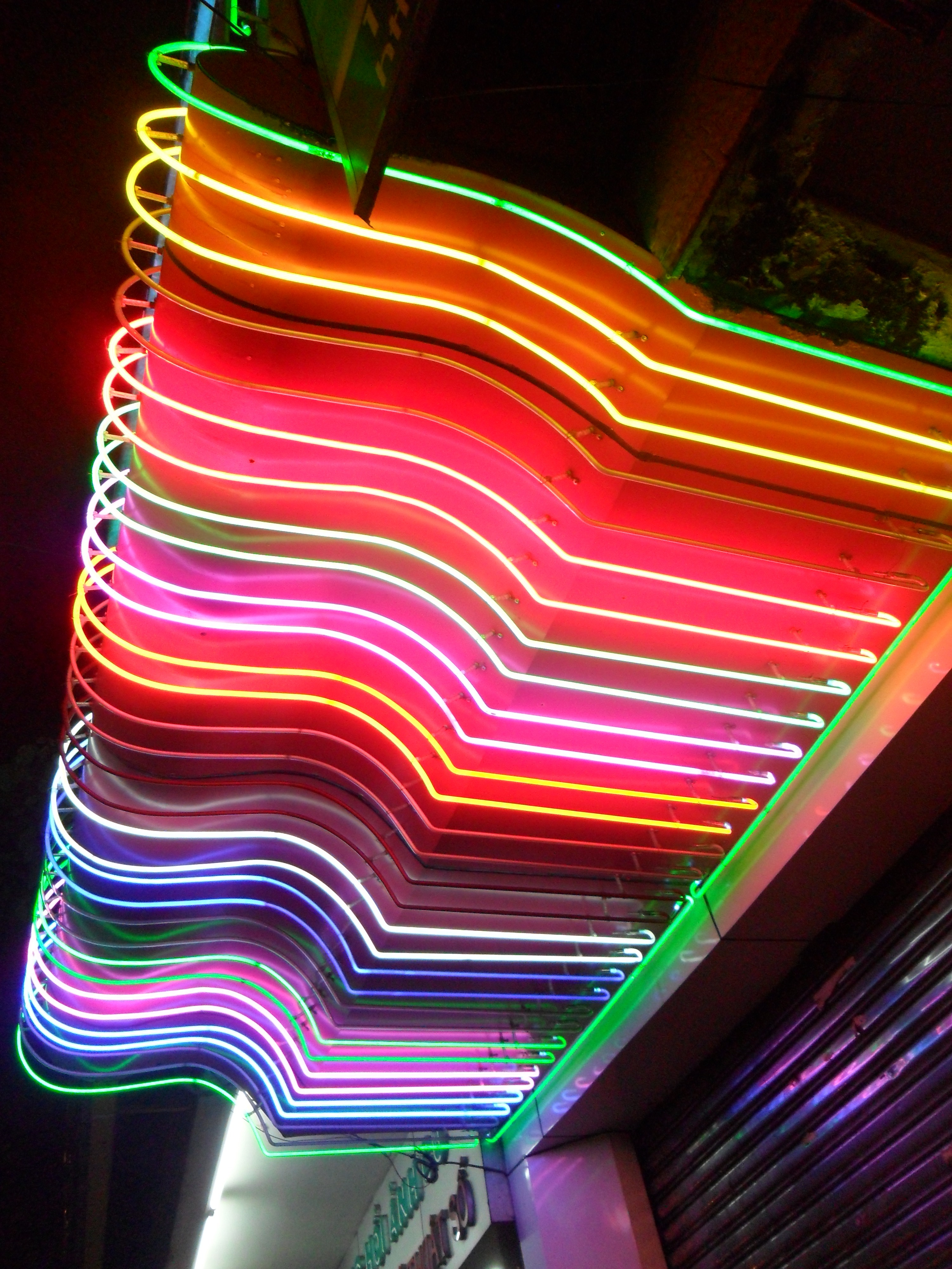 A colorful neon sign on a street in Ho Chi Minh City.